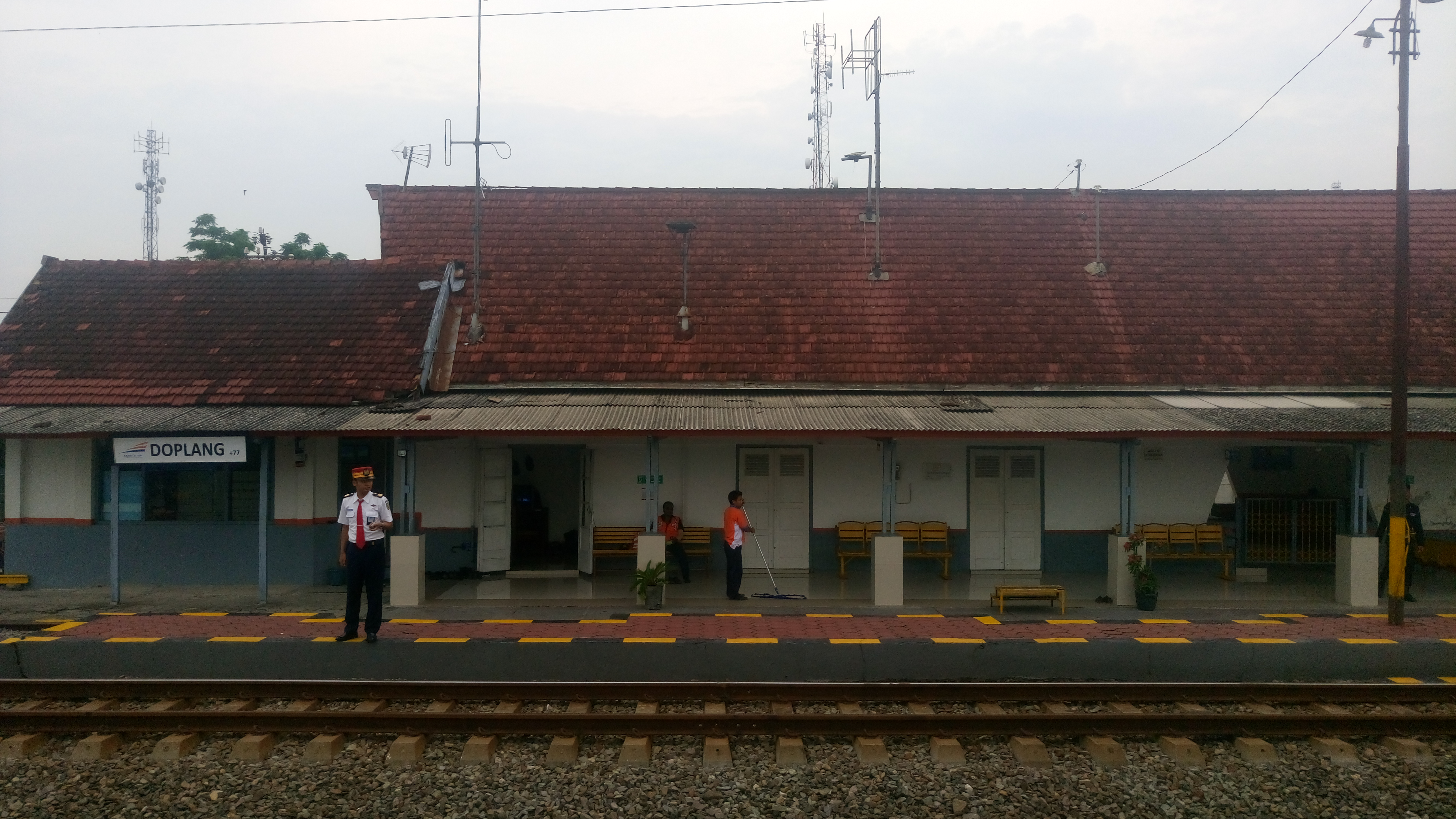 A Conductor heading a train in front of Doplang Station building